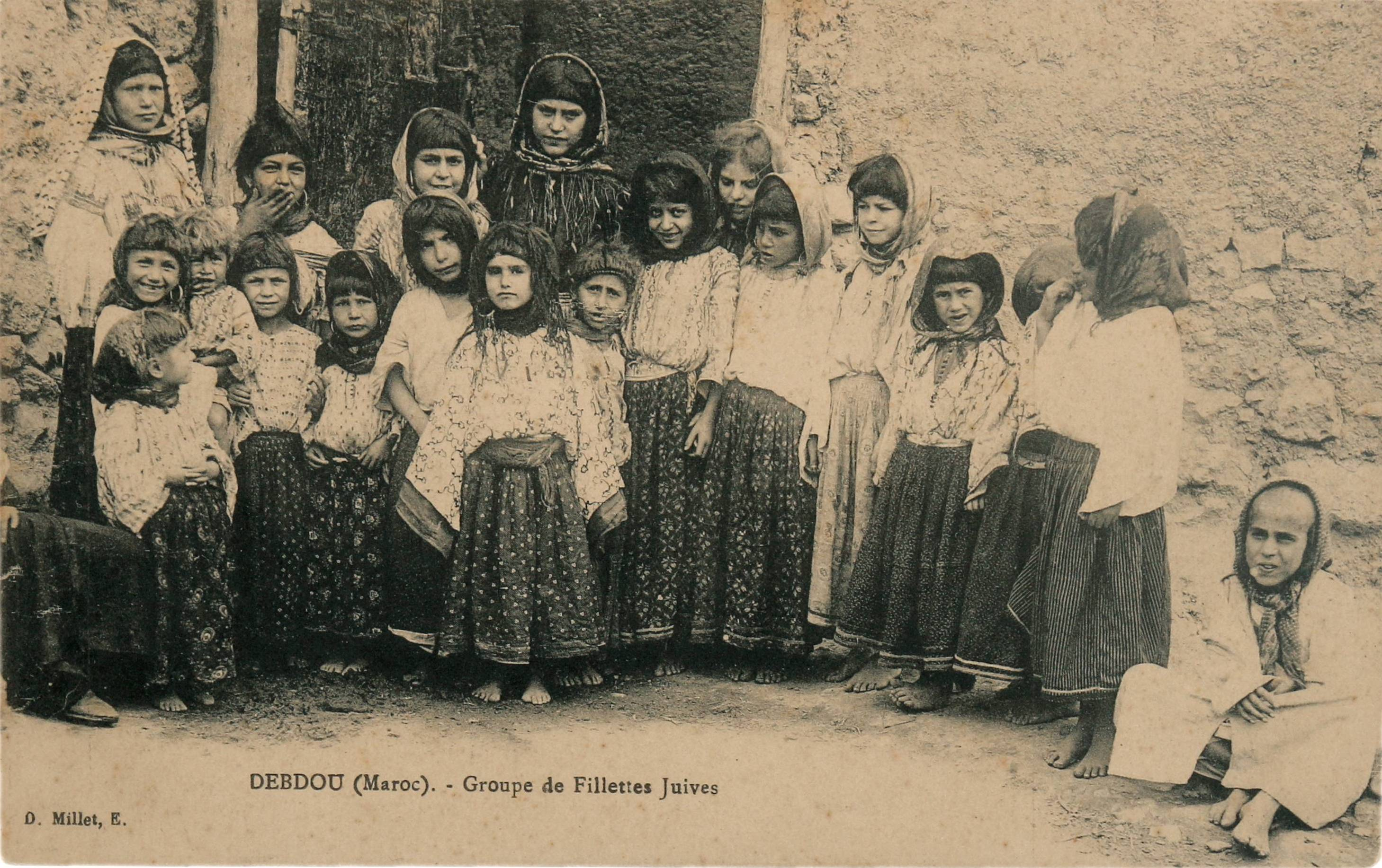 Postcard of young Jewish girls in Debdou, Morocco